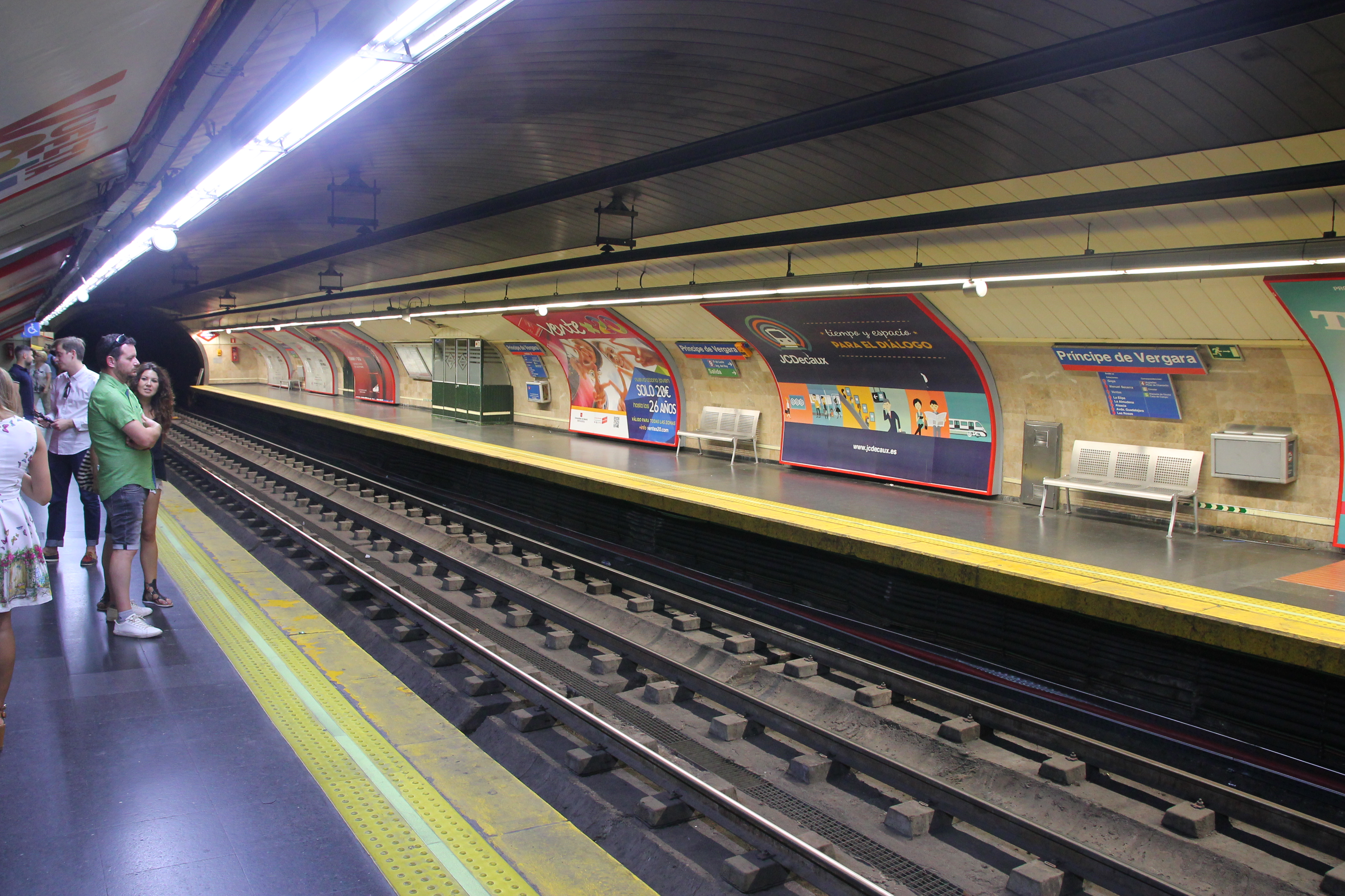 Estación de Príncipe de Vergara